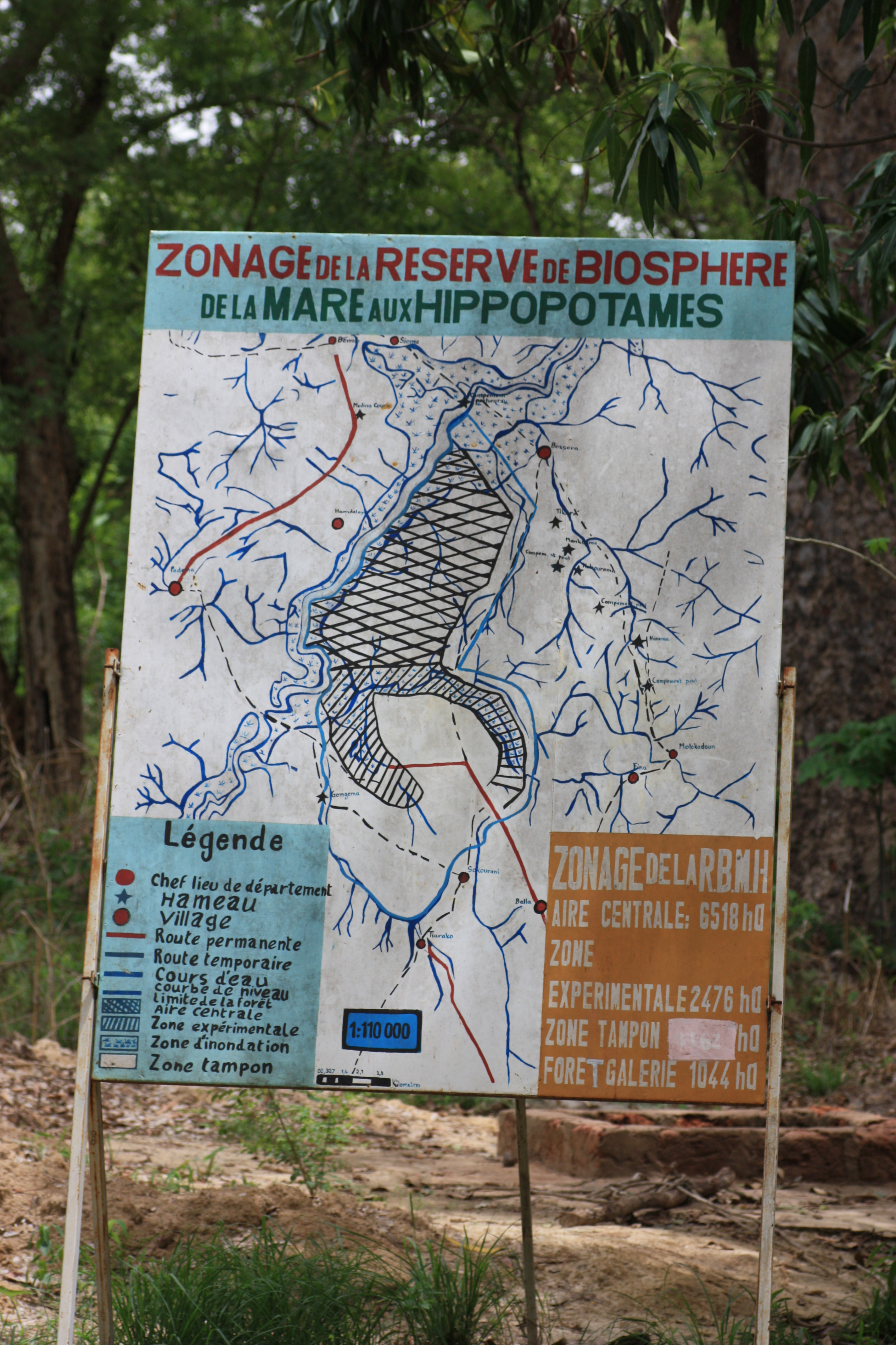 Sign at the entrance of Mare aux Hippopotames, Burkina Faso